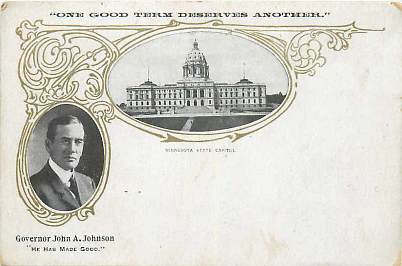 Minnesota Governor John Albert Johnson re-election mailer